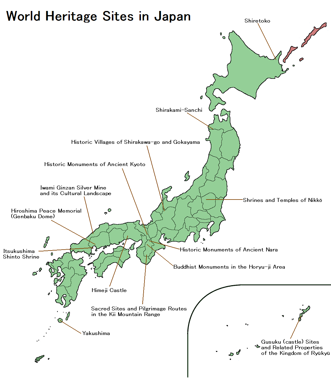 locations of the world heritage sites in Japan in 2008